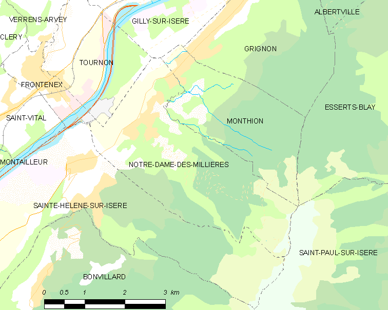 Map of French municipality